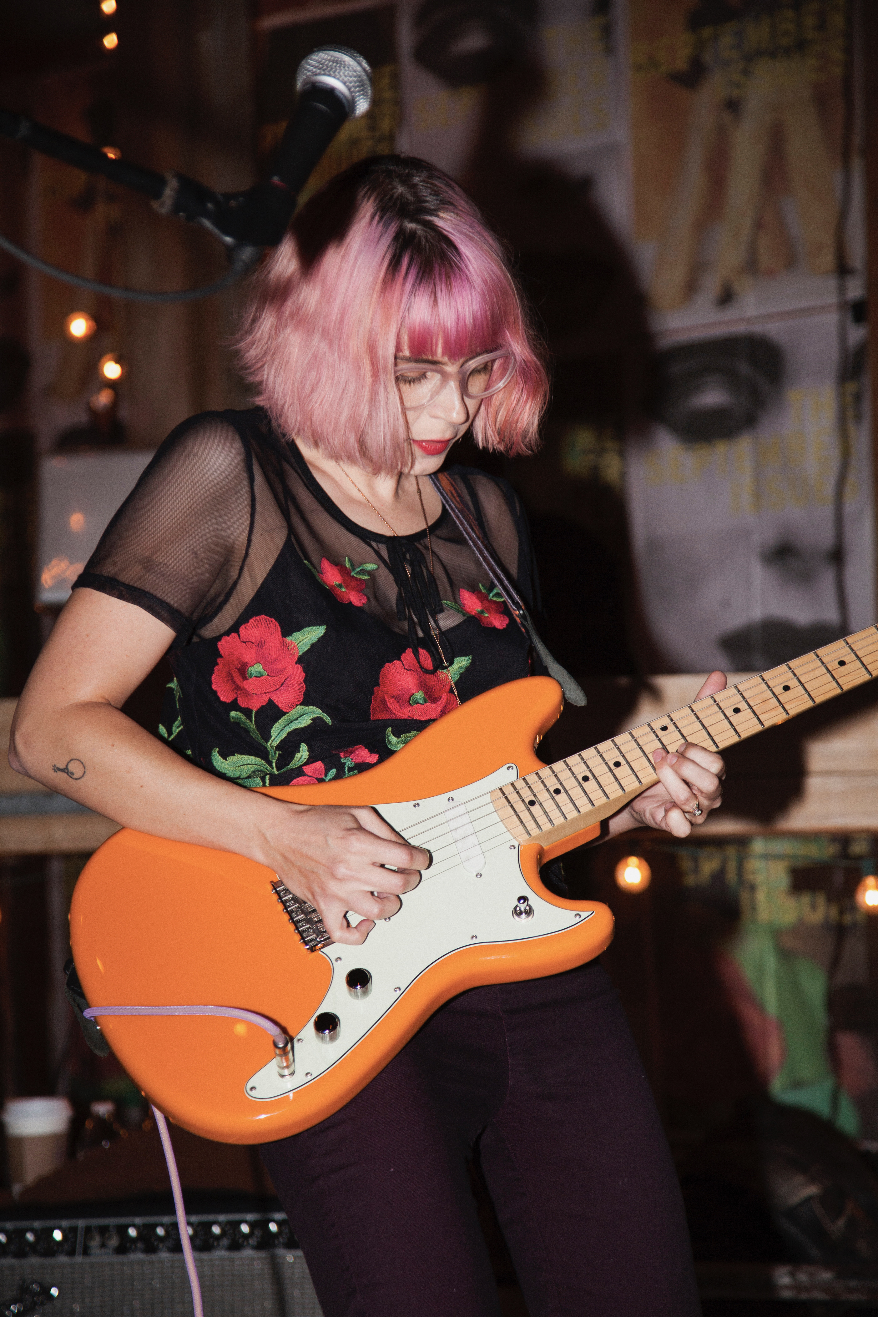 Fannan performing.